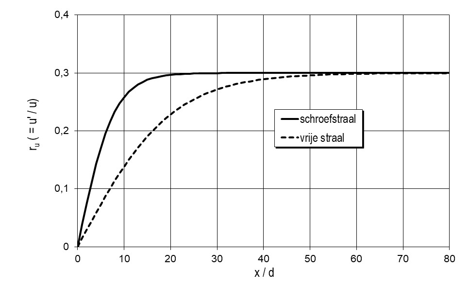 relation between a free jet and a propeller jet, a propeller jet has more turbulence nearby